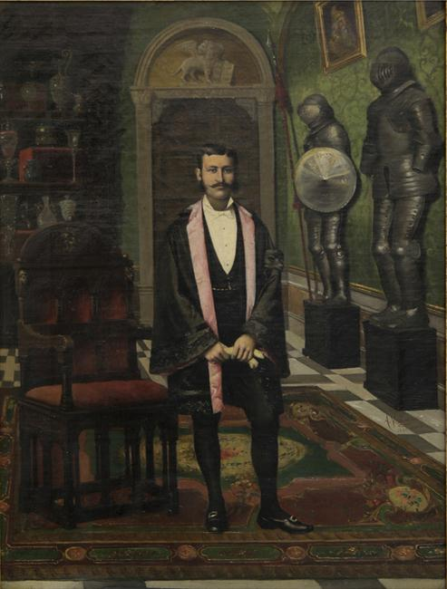 Portrait of man deguise, 1882